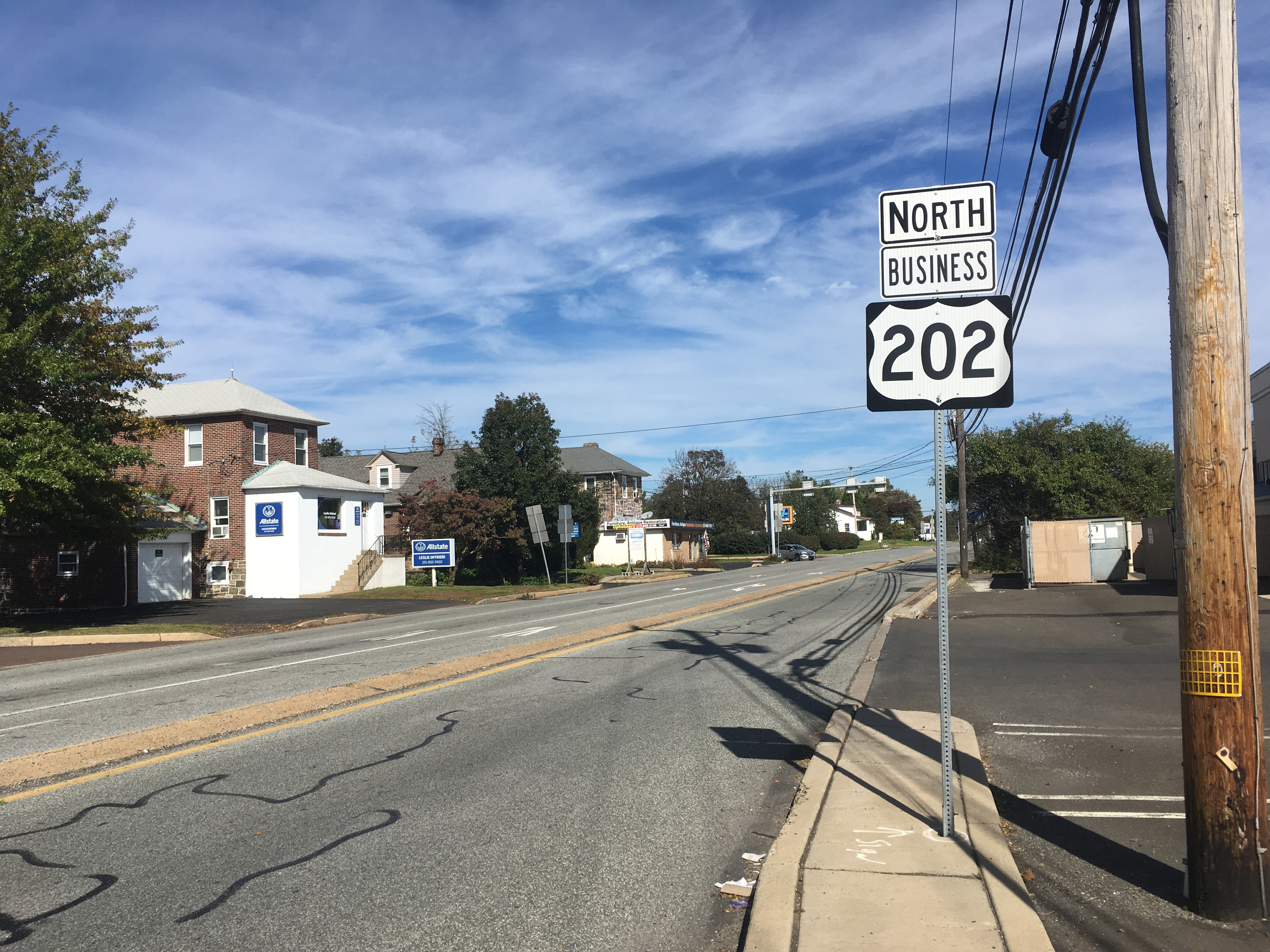 Northbound U.S. Route 202 Business (Doylestown Road) past the intersection with Pennsylvania Route 309 (Bethlehem Pike) and Pennsylvania Route 463 (Cowpath Road/Horsham Road) in Montgomery Township, Pennsylvania